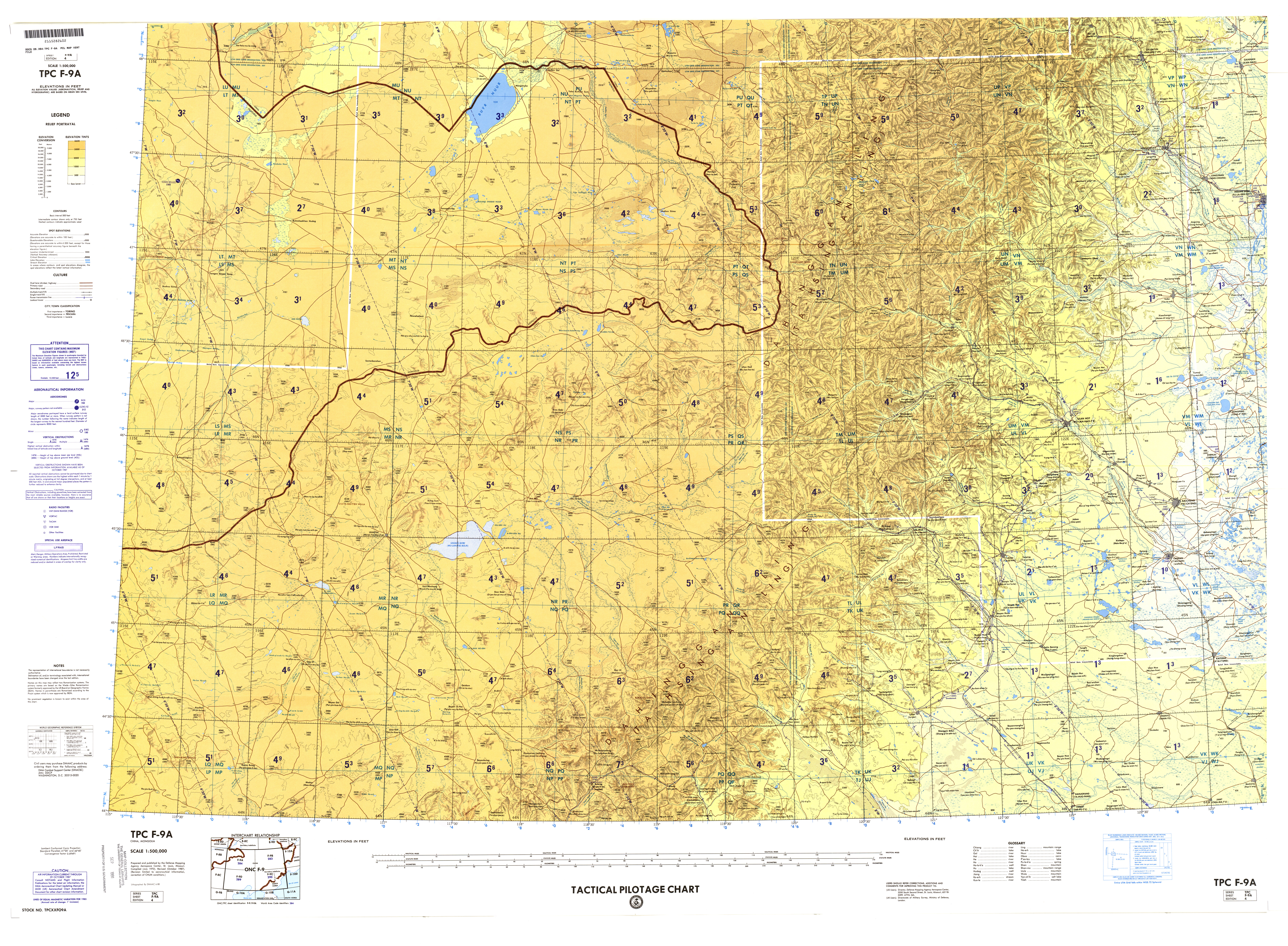 Tactical Pilotage Chart Series - World 1:500,000 Scale